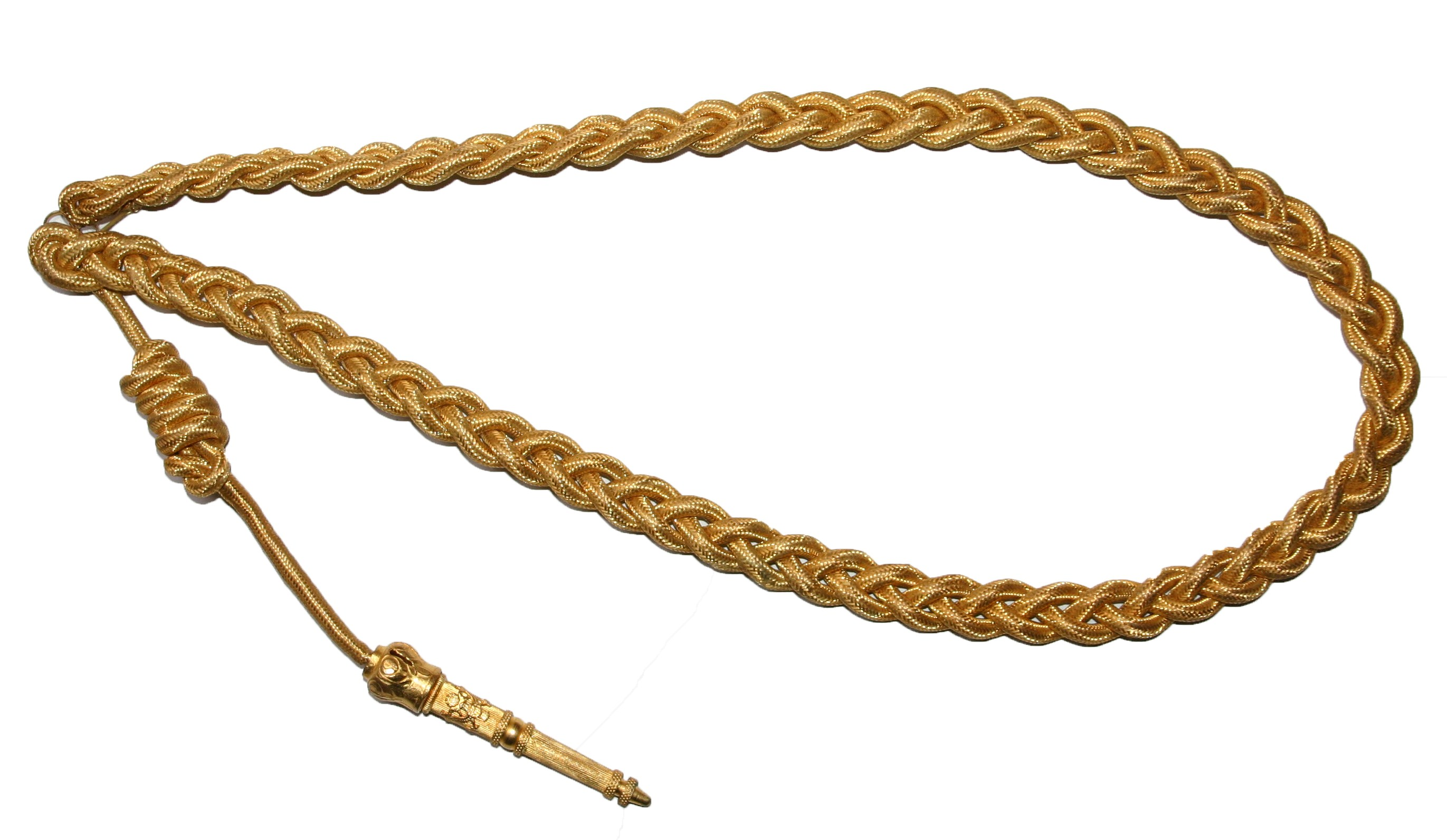 Service Gold cord Aiguillette worn with the Class A Uniform and Army Service Uniform.